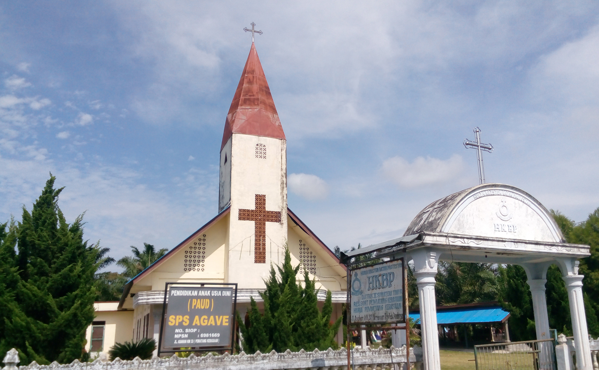 HKBP Pematang Kerasaan, Church in Pematang Kerasaan, Bandar, Simalungun